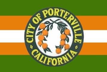 Portervillecityflag